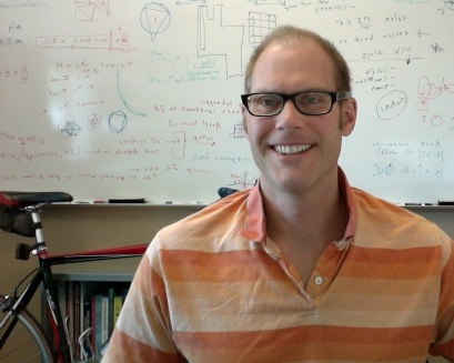 Scott A. Mitchell, Applied Mathematician